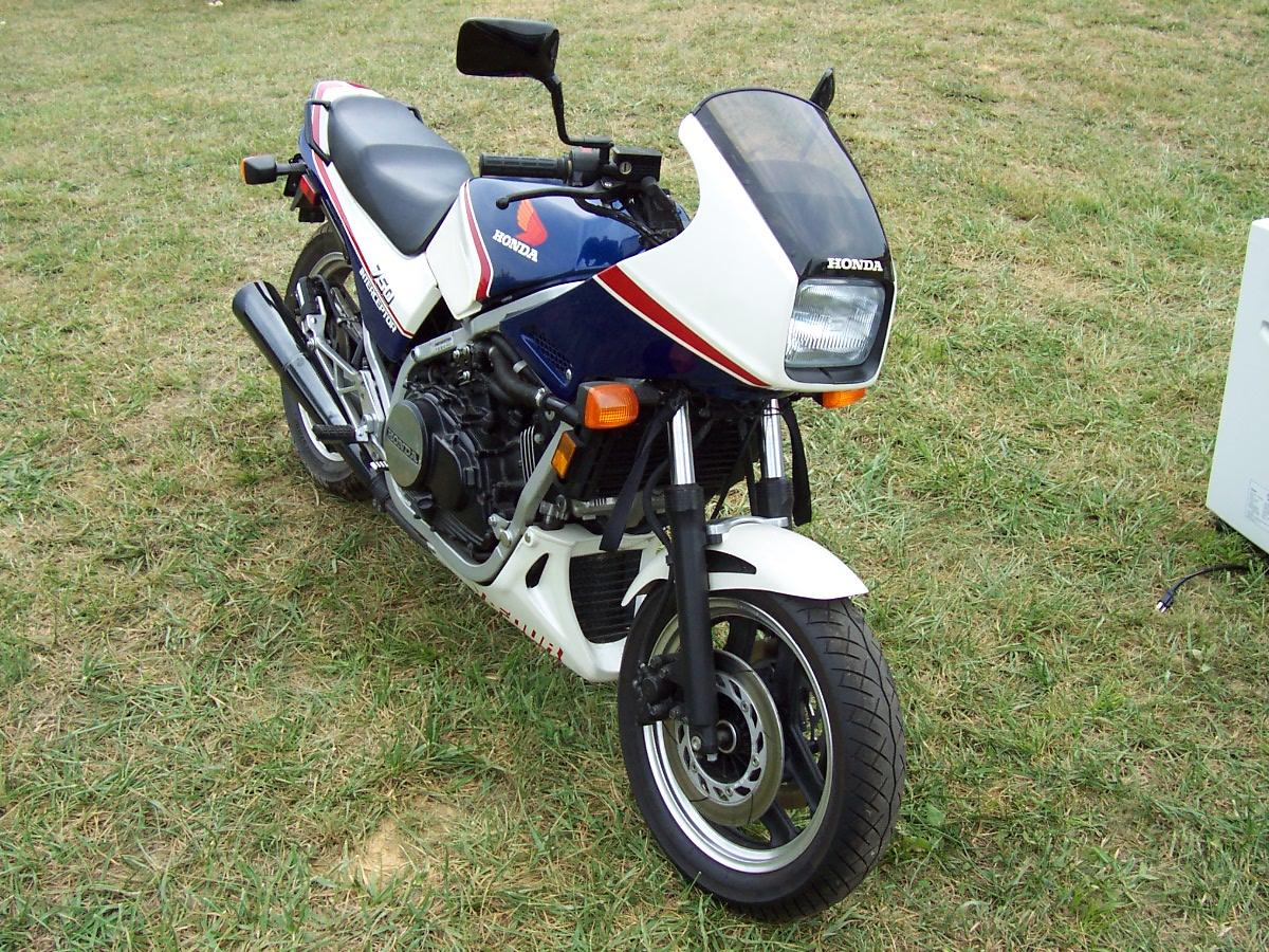 Honda VF750F Interceptor, photographed at Hunt's Lodge in 2006 by Michael J. Freeman --Pi3832 19:18, 24 July 2006 (UTC)